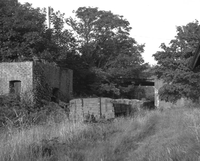 Derelict goods wagons at St Johns: The Isle of Man Railway through St Johns had already been abandoned for some years when these wagons were photographed in 1971, but the Manx Northern branch to Foxdale, upon which these wagons are standing, had been abandoned for much longer. The branch line passed under the road bridge shown here, and continued to Foxdale.